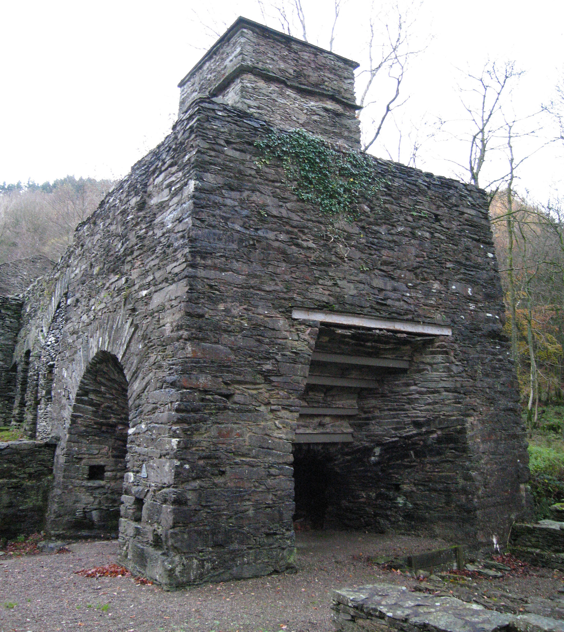 The Duddon furnace is a surviving, disused, charcoal-fueled blast furnace near Broughton-in-Furness in Cumbria.